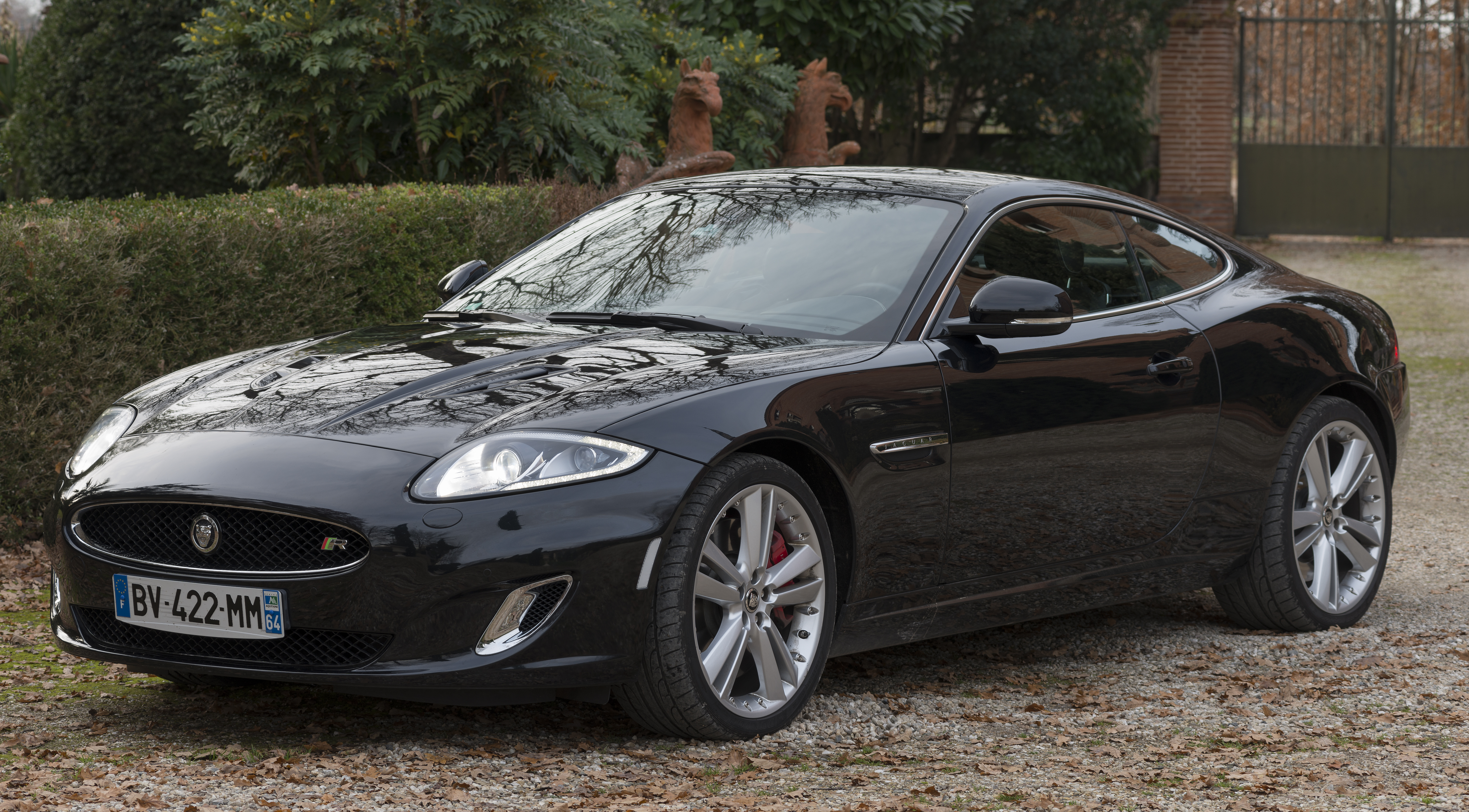 Jaguar XKR (X150) Coupé Model 2014. 3/4 side view.